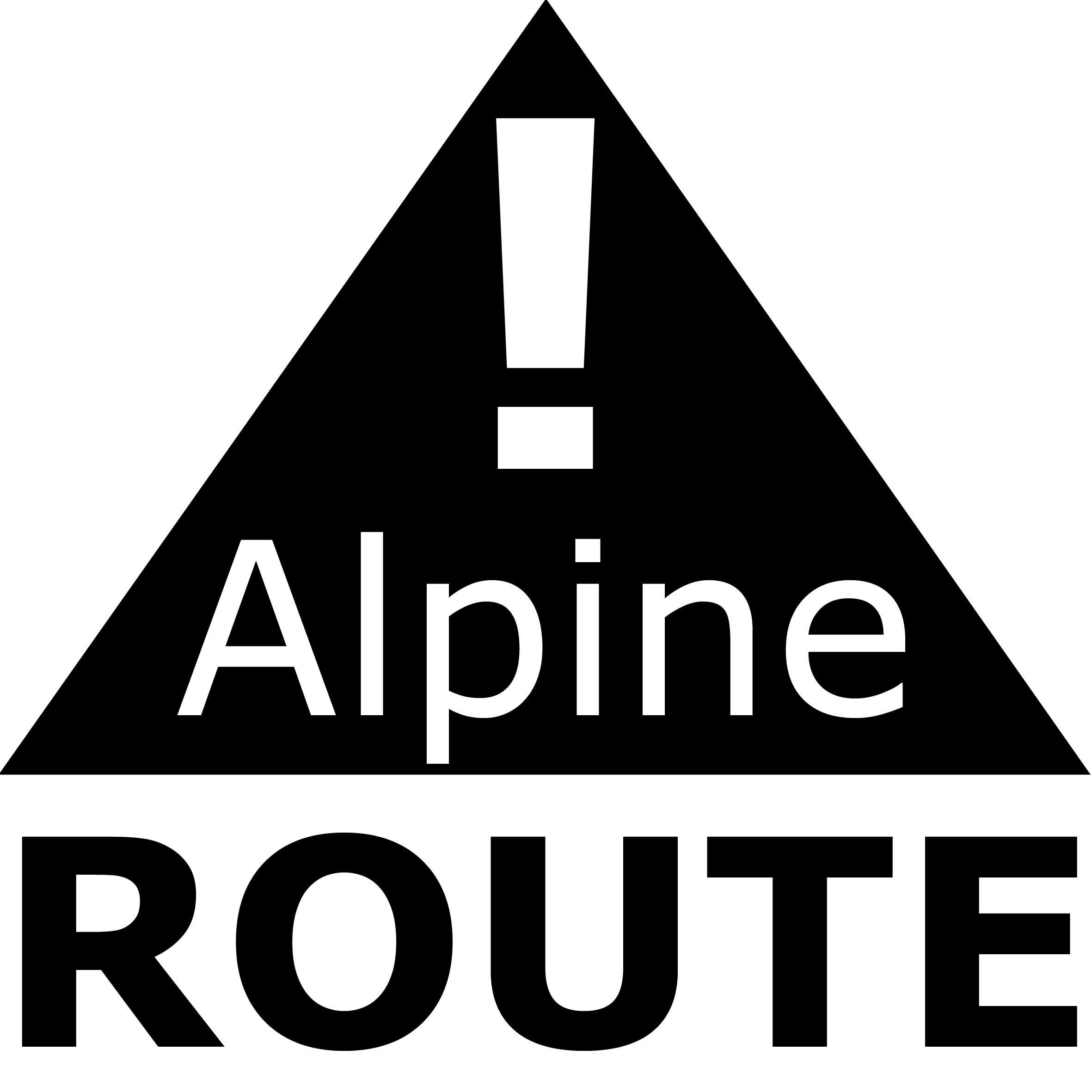 Logo to mark alpine routes in the Alps with. No copyright due to low Threshold of originality.